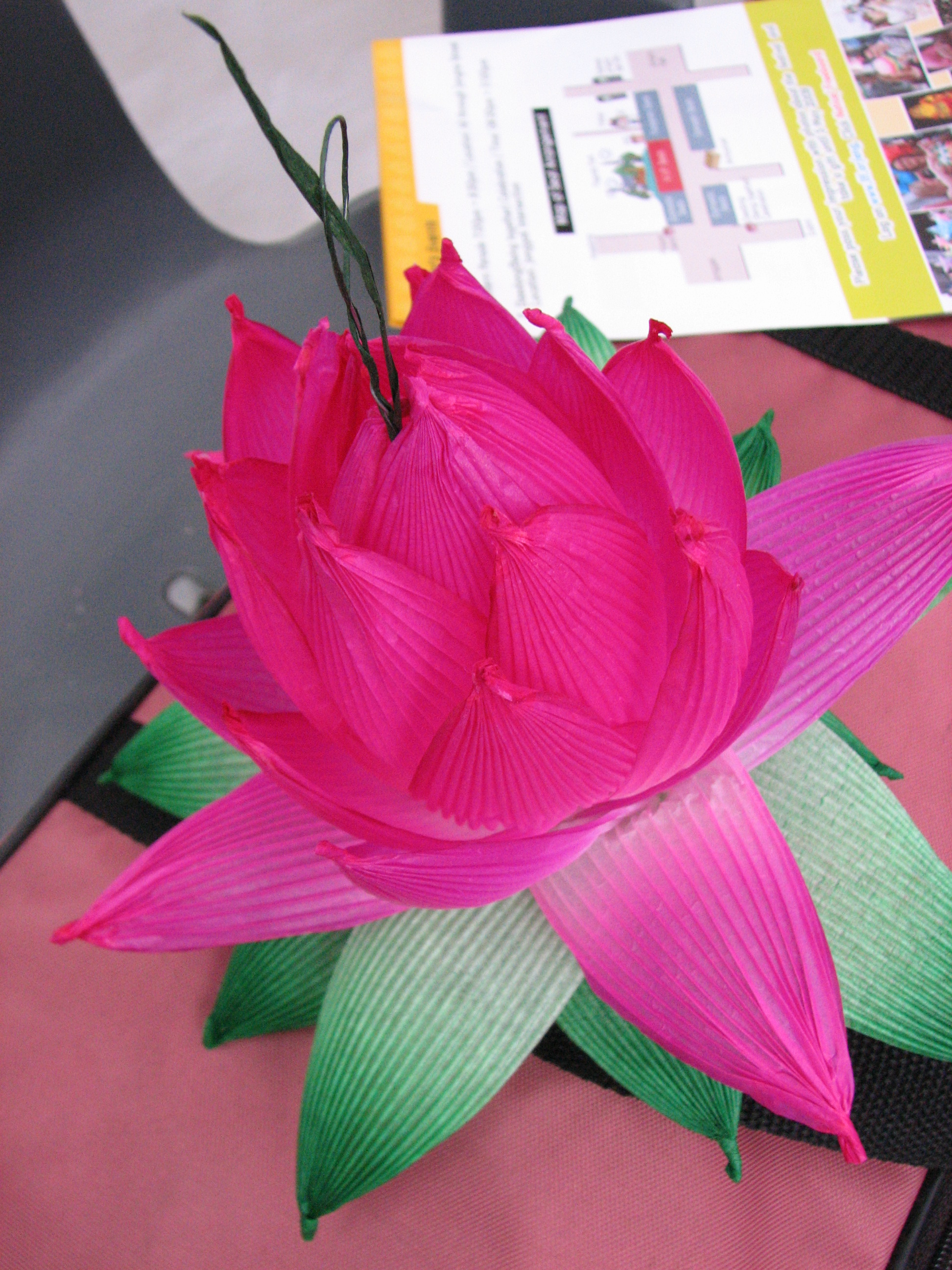 I made this at the Seoul Lantern Festival - Lotus lantern - 2009